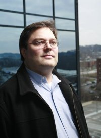 Douglas B. Maddox Producer publicity picture